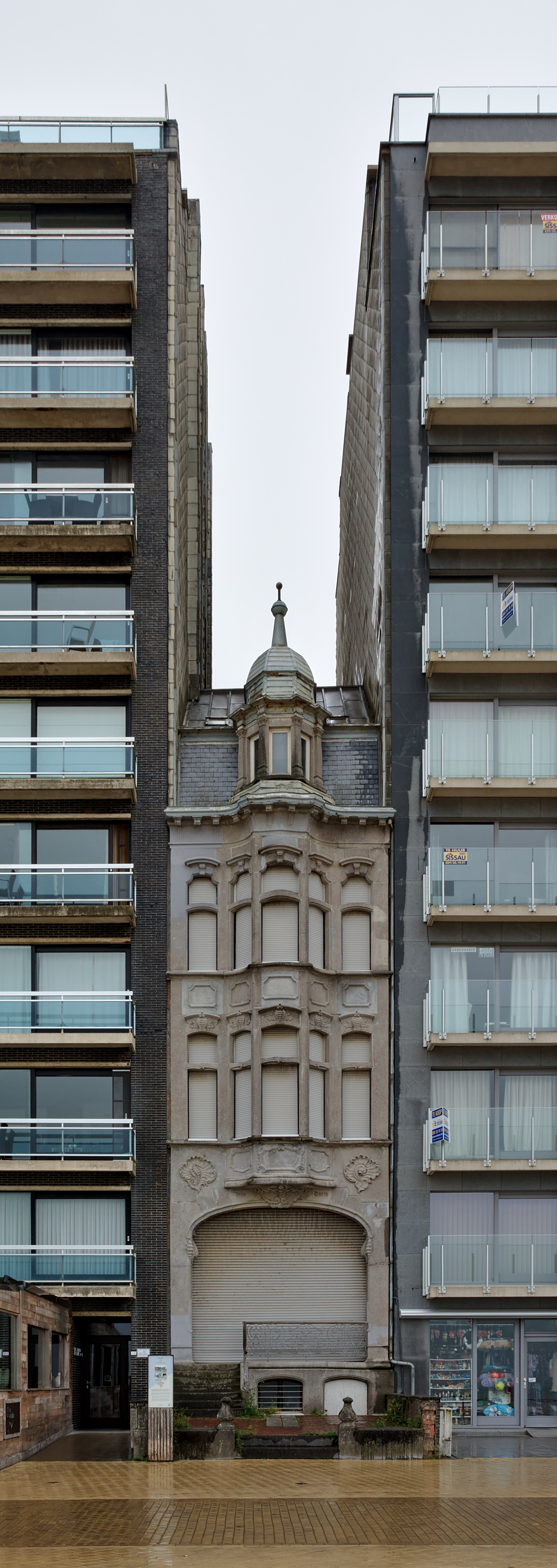 Villa Doris in Middelkerke, Belgium This photo of immovable heritage has been taken in the Flemish Region